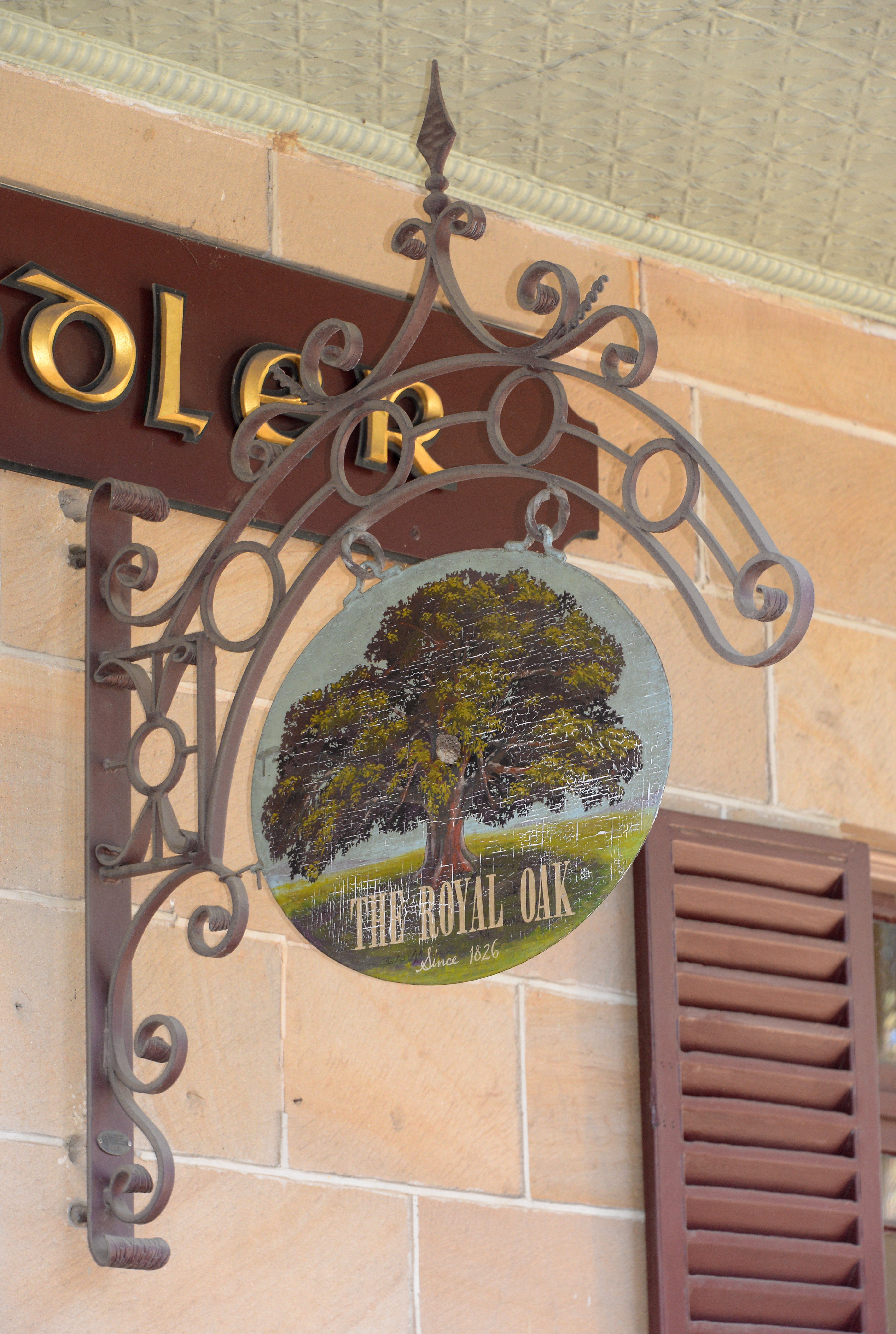 Mean Fiddler Hotel, Rouse Hill, Sydney